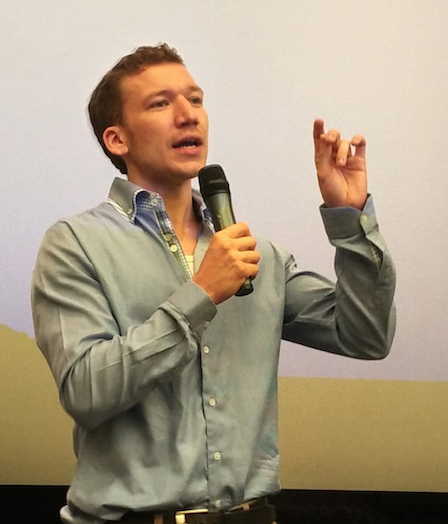 Screening of Movie Battle For Her